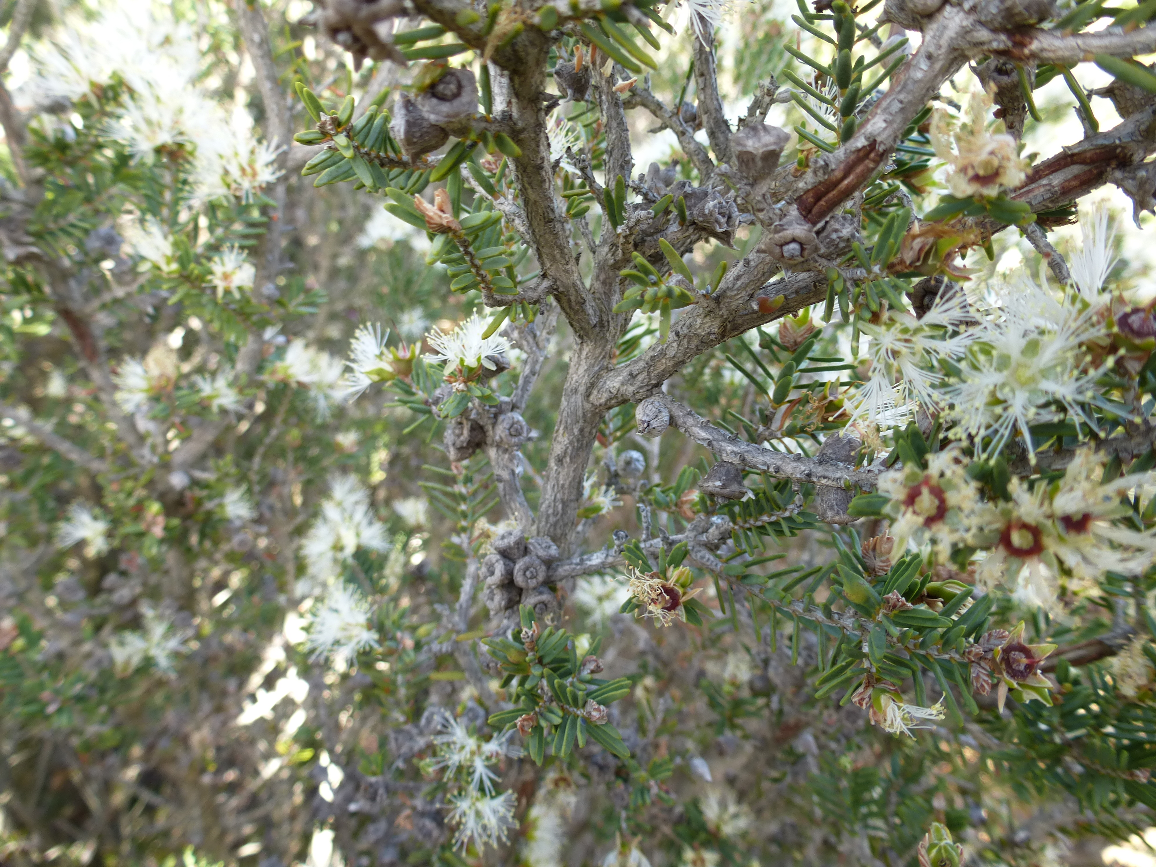 Melaleuca ordinifolia growing near the Hamersley River